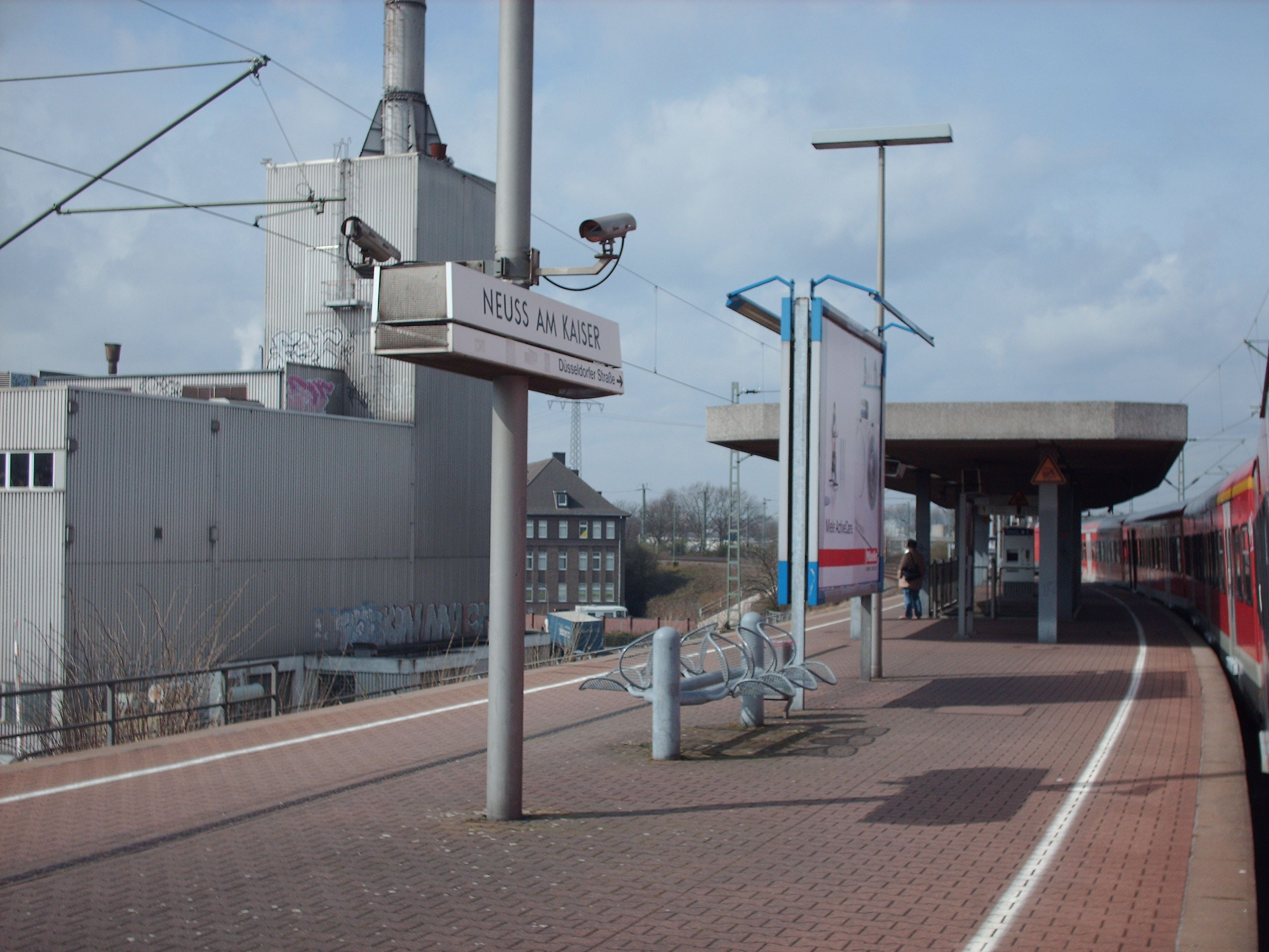 Neuss Am Kaiser station, Neuss, Germany check usage